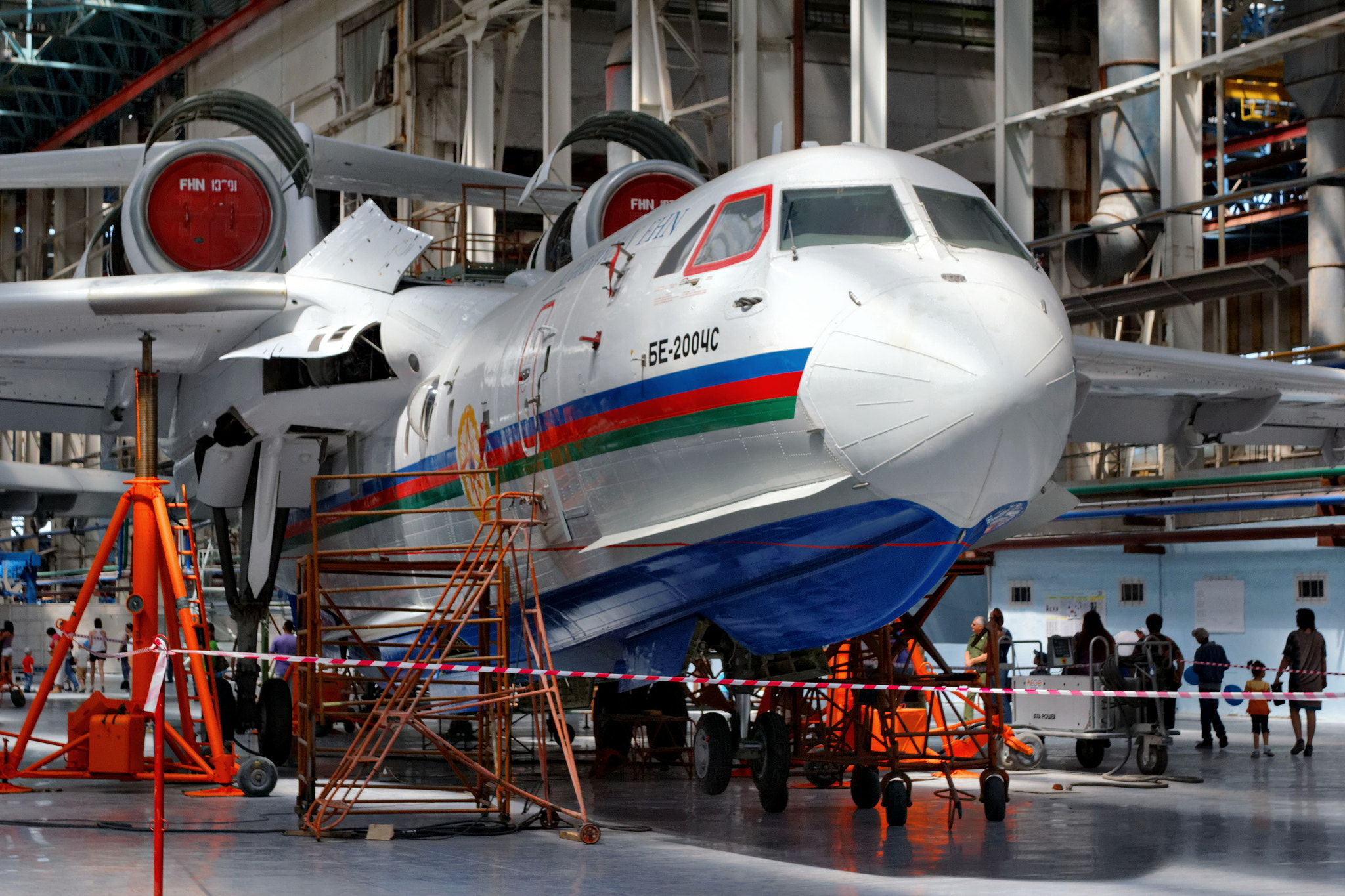 500px provided description: Taganrog. Beriev Aircraft Company. Beriev Be-200 ????????. ???????????? ??????????? ??????-??????????? ???????? ????? ?. ?. ???????. (???? ???????? ??????). ??-200. ??? ????????????? ?????? [#spring ,#aircraft ,#??????? ,#airplane ,#????? ,#may ,#2012 ,#??? ,#taganrog ,#?????????? ??????? ,#Russia ,#?????? ,#???????? ,#be-200 ,#Rostov Oblast ,#beriev aircraft company ,#????? ??. ?. ?. ??????? ,#??-200 ,#??? ????????????? ??????]